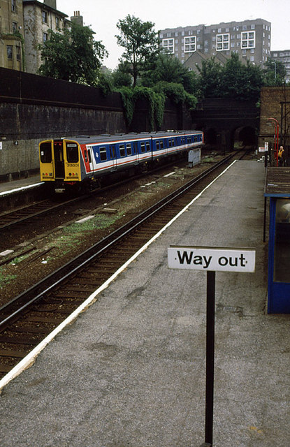 Euston bound 313001, in Network Southeast livery, pulls out of South Hampstead station. The arches just before the tunnel carry the mainline from Marylebone. The blocks of flats behind are at Swiss Cottage.